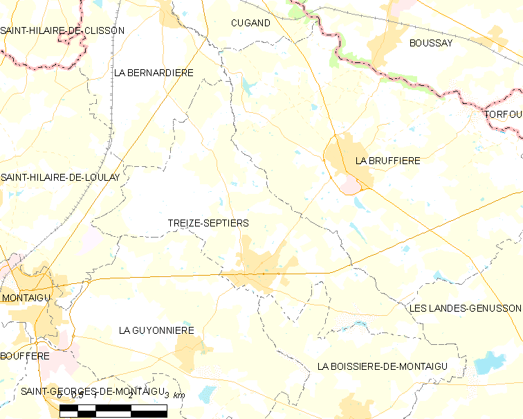 Map of French municipality Treize-Septiers